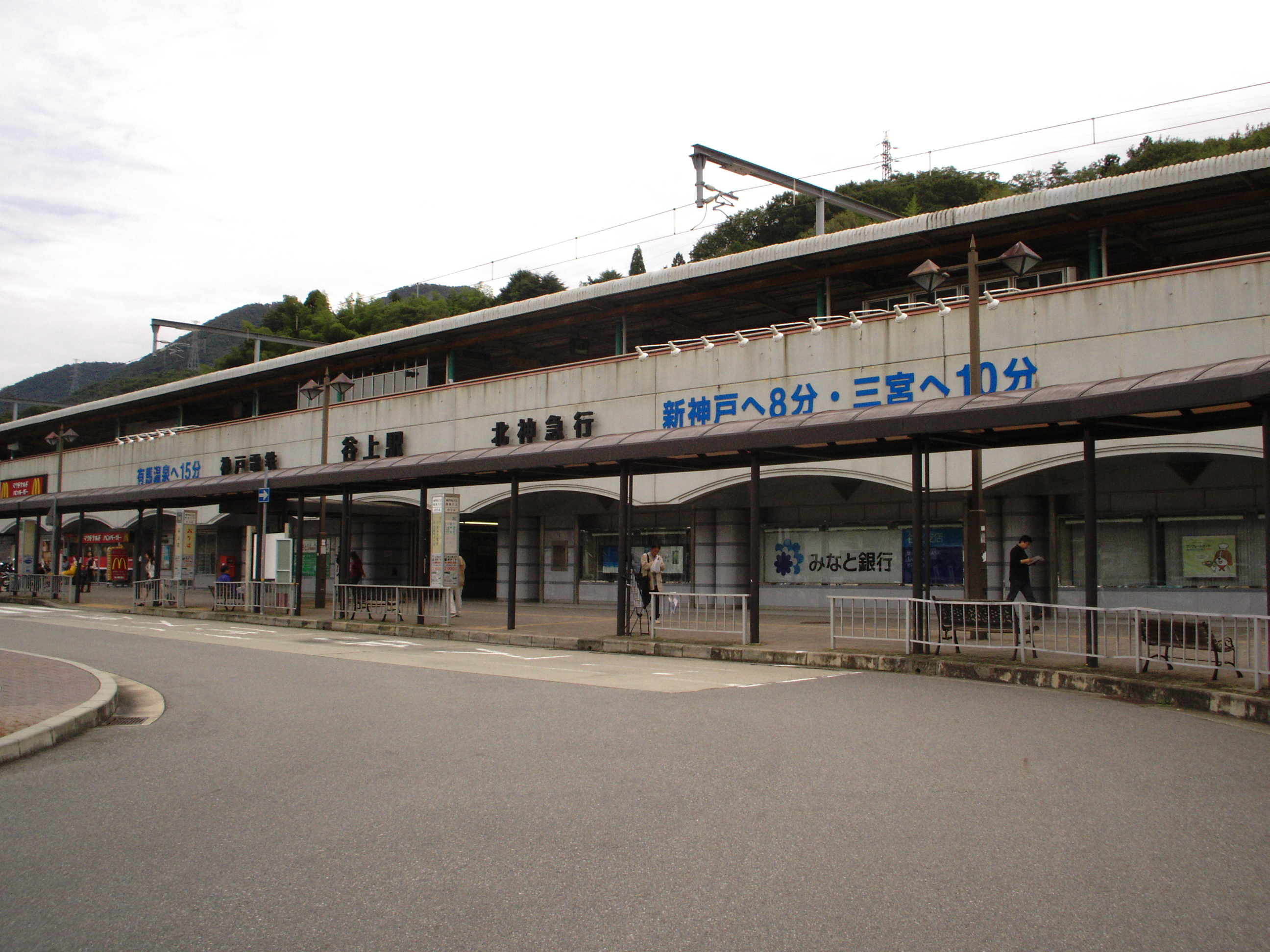 Tanigami Station